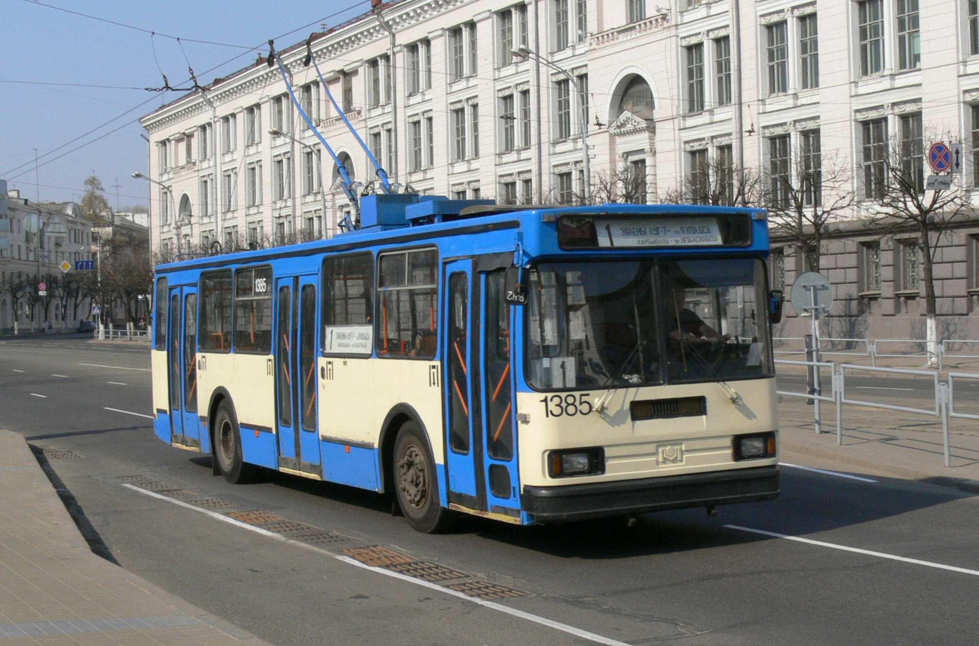 Buelorussian trolleybus AKCM-201 in Minsk